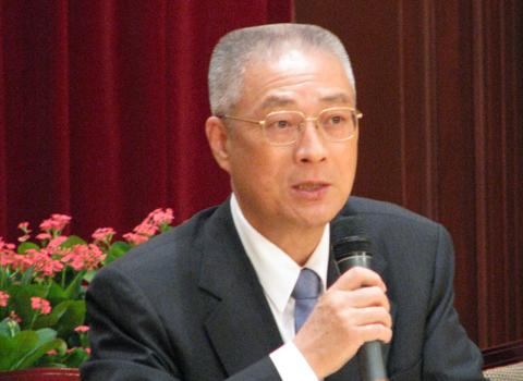 Wu Den-yih